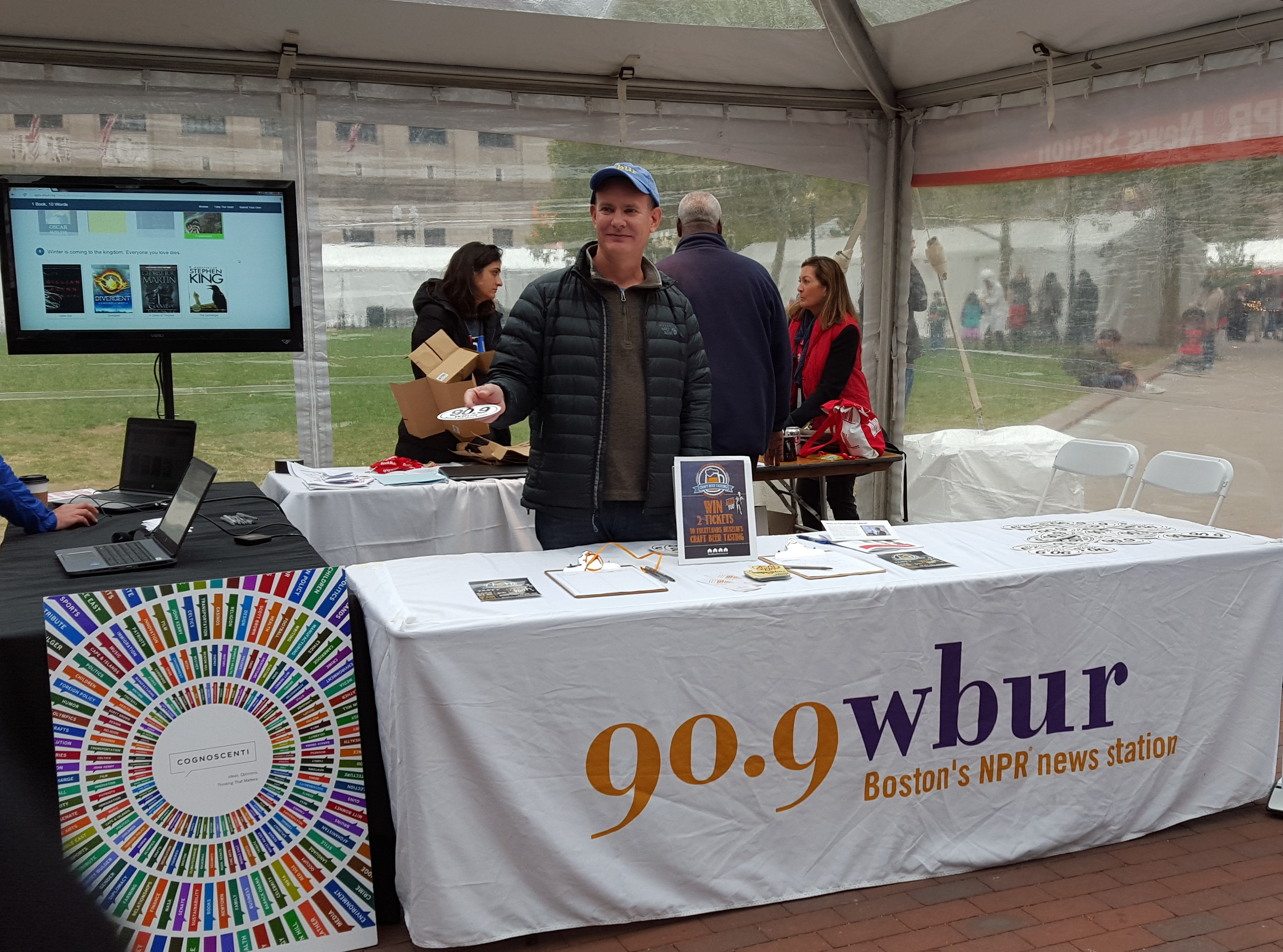 The WBUR-FM information booth at the 2015 Boston Book Festival. Other information Cropped from the original.